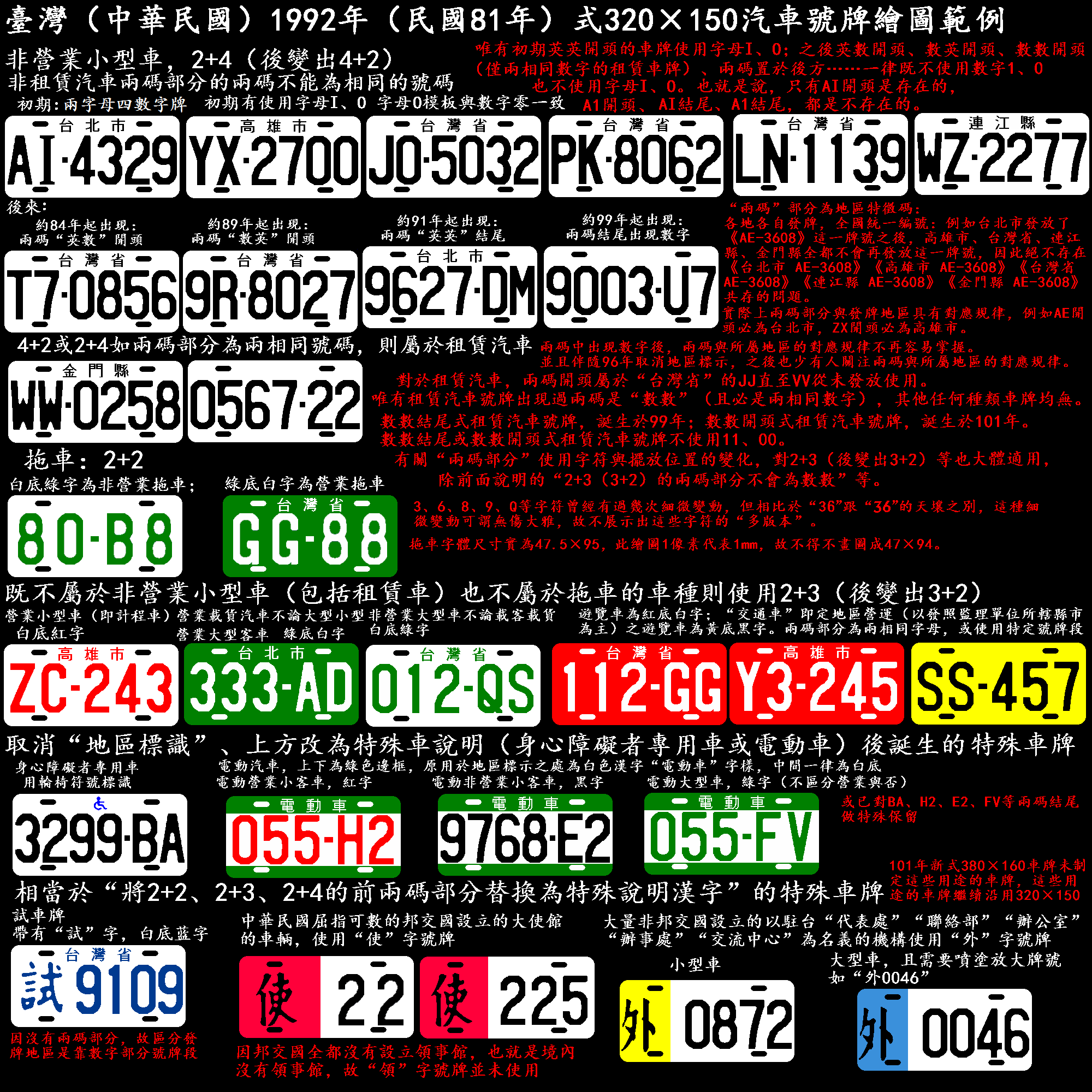 I made these Templates for Model Cars